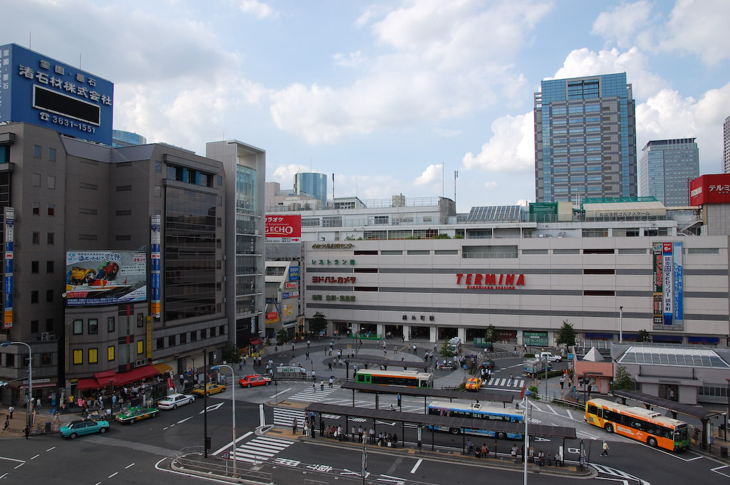 Kinshi-cho Station South Exit